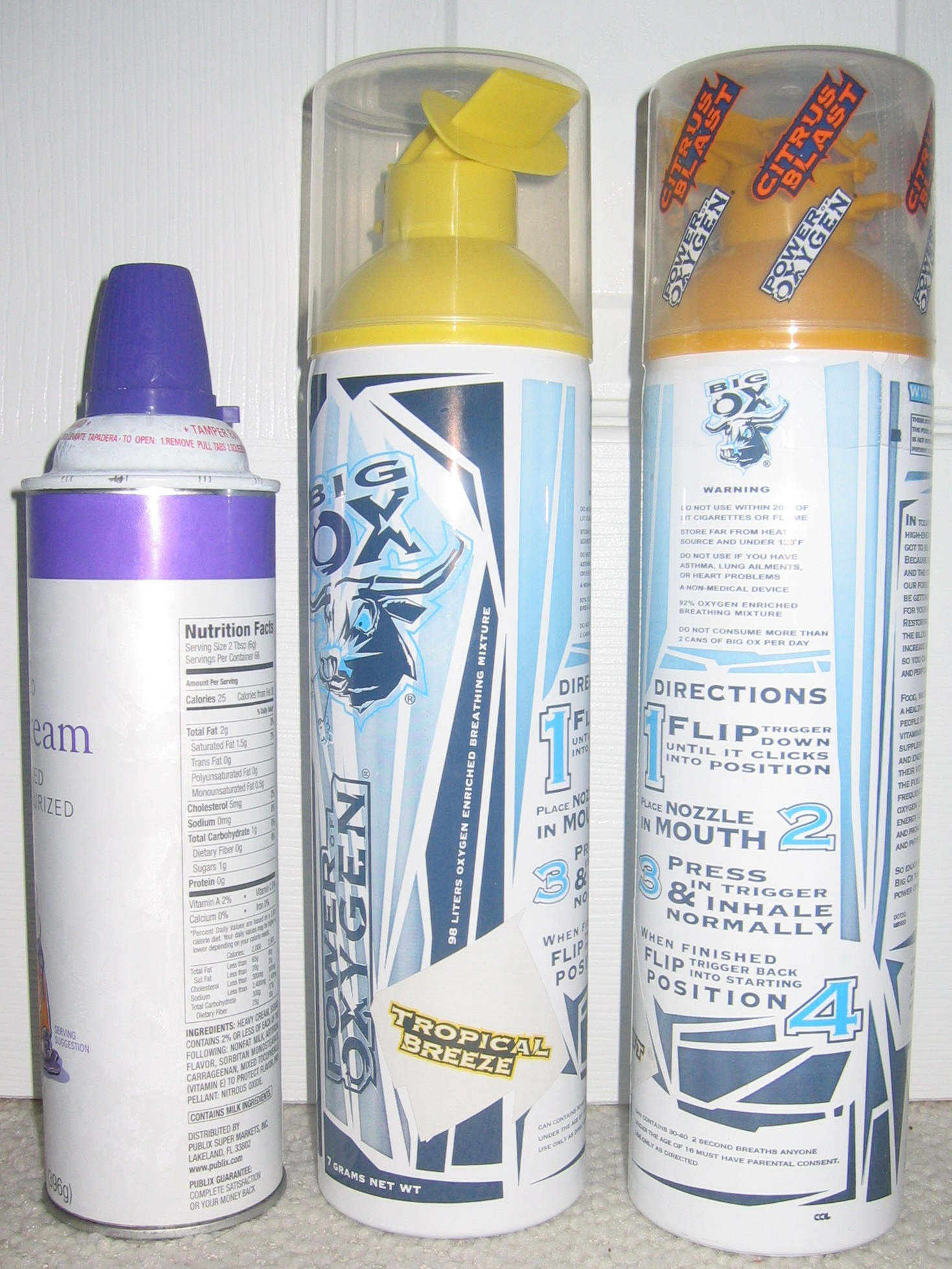 Supermarket brand large whipped cream canister compared to two "big ox" oxygen canisters. The middle yellow can is "tropical breeze" flavor. The right most can is an unopened "citrus blast". The can label says "98 liters oxygen enriched breathing mixture", "can contains 30-40 two second breaths. Anyone under the age of 16 must have parental consent. Use only as directed." Available flavors and corresponding can colors are: "mountain mint" (green), "tropical breeze" (yellow), "polar rush" (blue), and "citrus blast" (orange). (The flavor labels are stickers covering over the text: "Try it for: an energy boost, physical stamina, stress, mental alertness, hangovers")